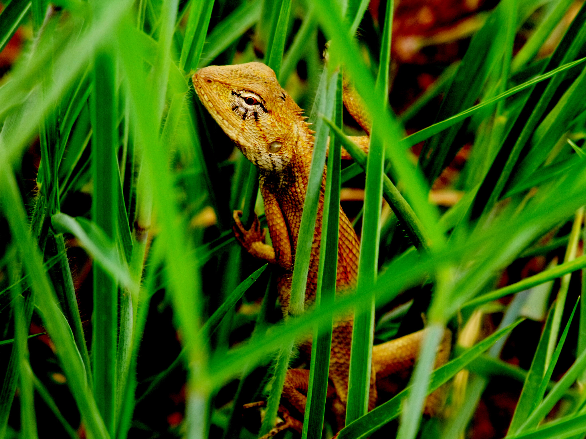 Mengkarung / Sesumpah / Cicak Kubing in Malaysia.